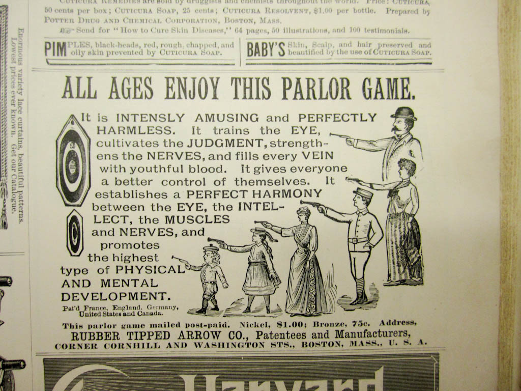 Old newspaper clipping advertising a parlor game from Rubber Tipped Arrow Co.